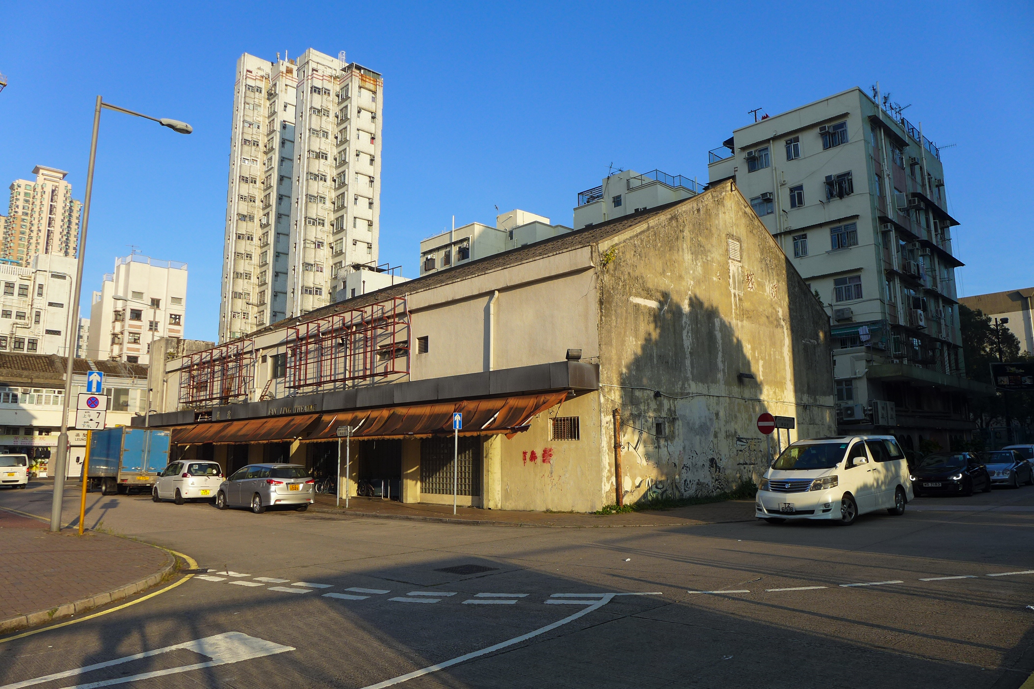 Fanling Theatre